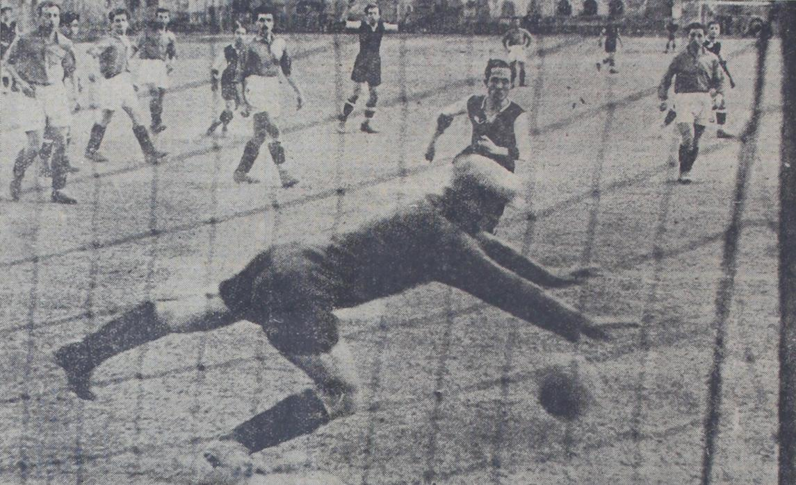 Galatasaray-Beşiktaş match in 16 March 1934.